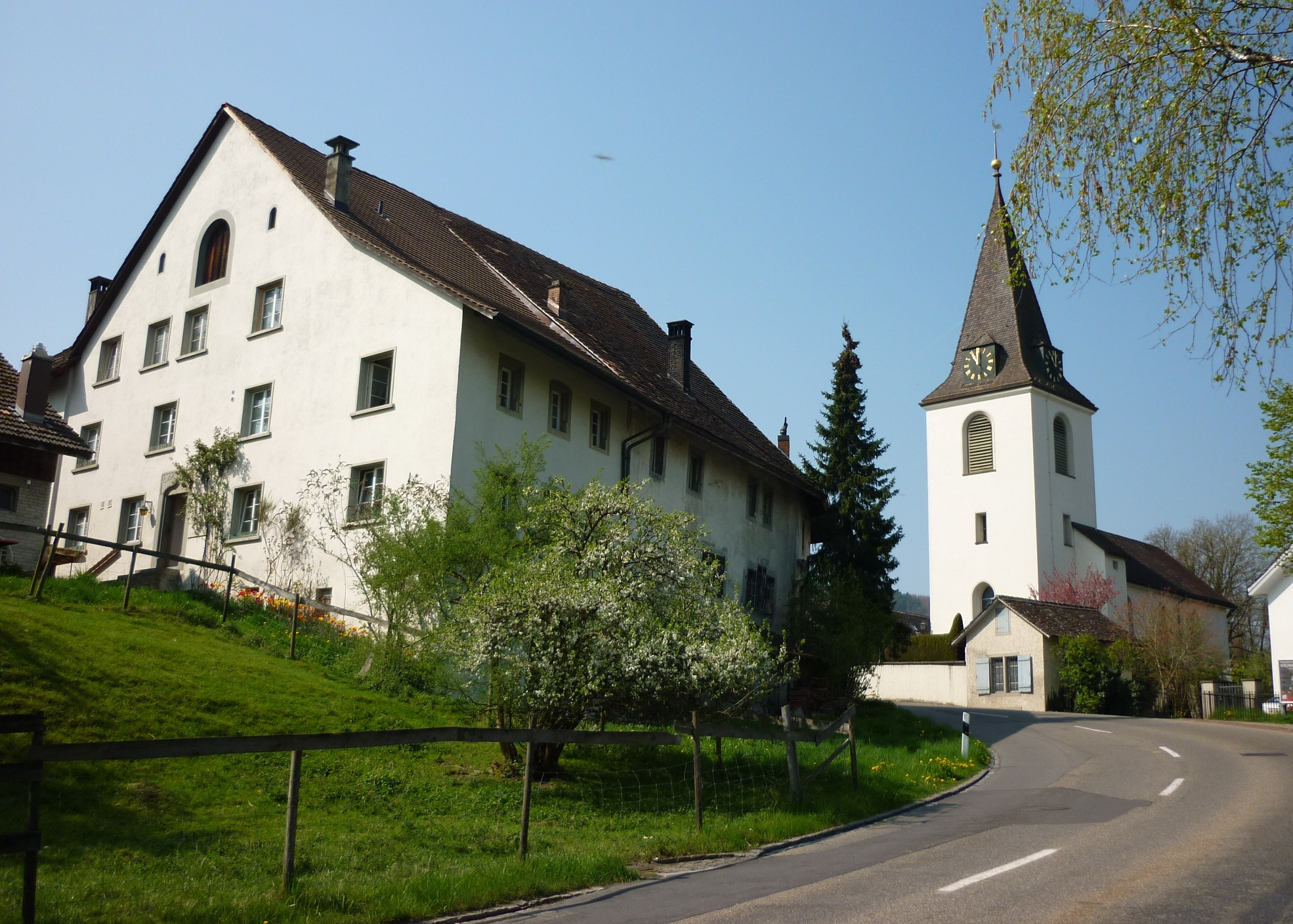 Church, Berg am Irchel ZH, Switzerland